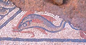 Roman Mosaic at Lopen. Detail from a 4th C Roman mosaic found at Mill House Lopen in 2001. Full details can be found at